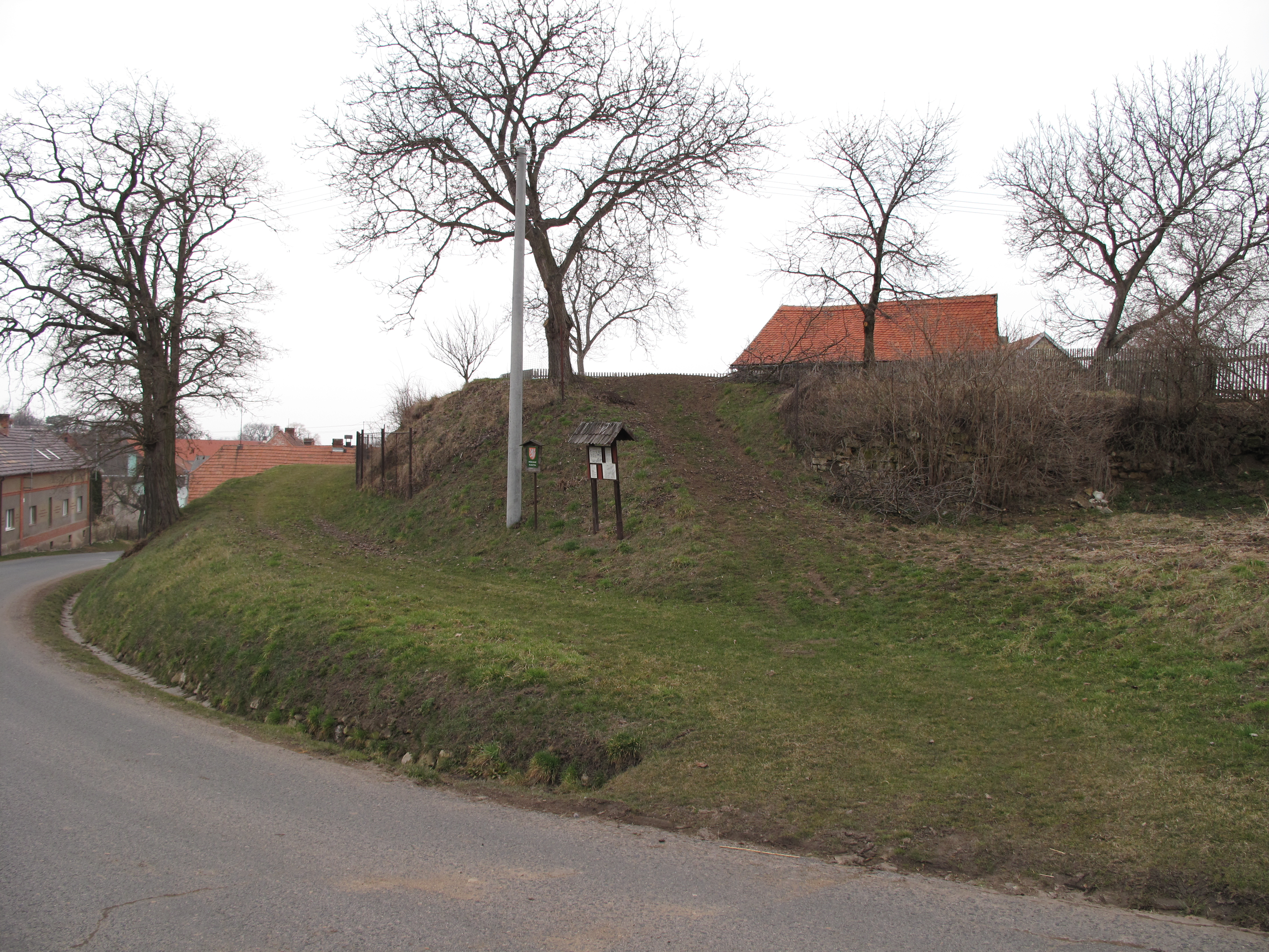 View at natural monument "Travertinová kupa" in Tuchořice village, Louny District, Czech Republic.